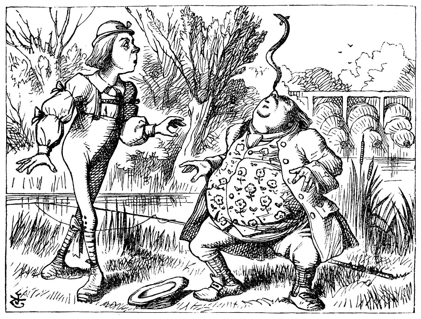 Father William balances an eel on his nose